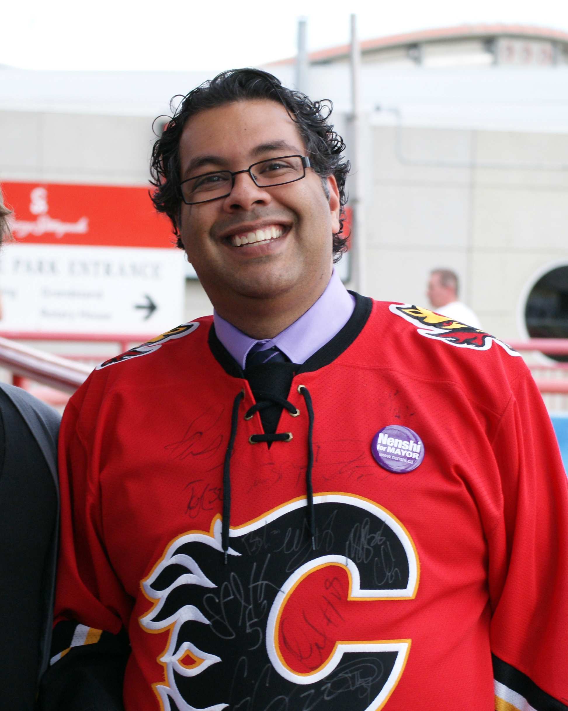 Naheed Nenshi. The 36th mayor of the City of Calgary, Alberta. Photo taken October 10, 2010 (8 days before the election).